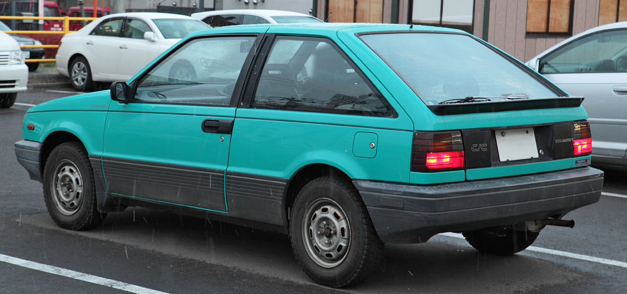 Second generation Isuzu Gemini 3door hatchback ( JT150 )